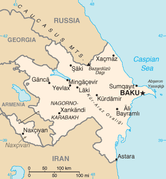 Azerbaijan map from CIA World Factbook, converted from original GIF format